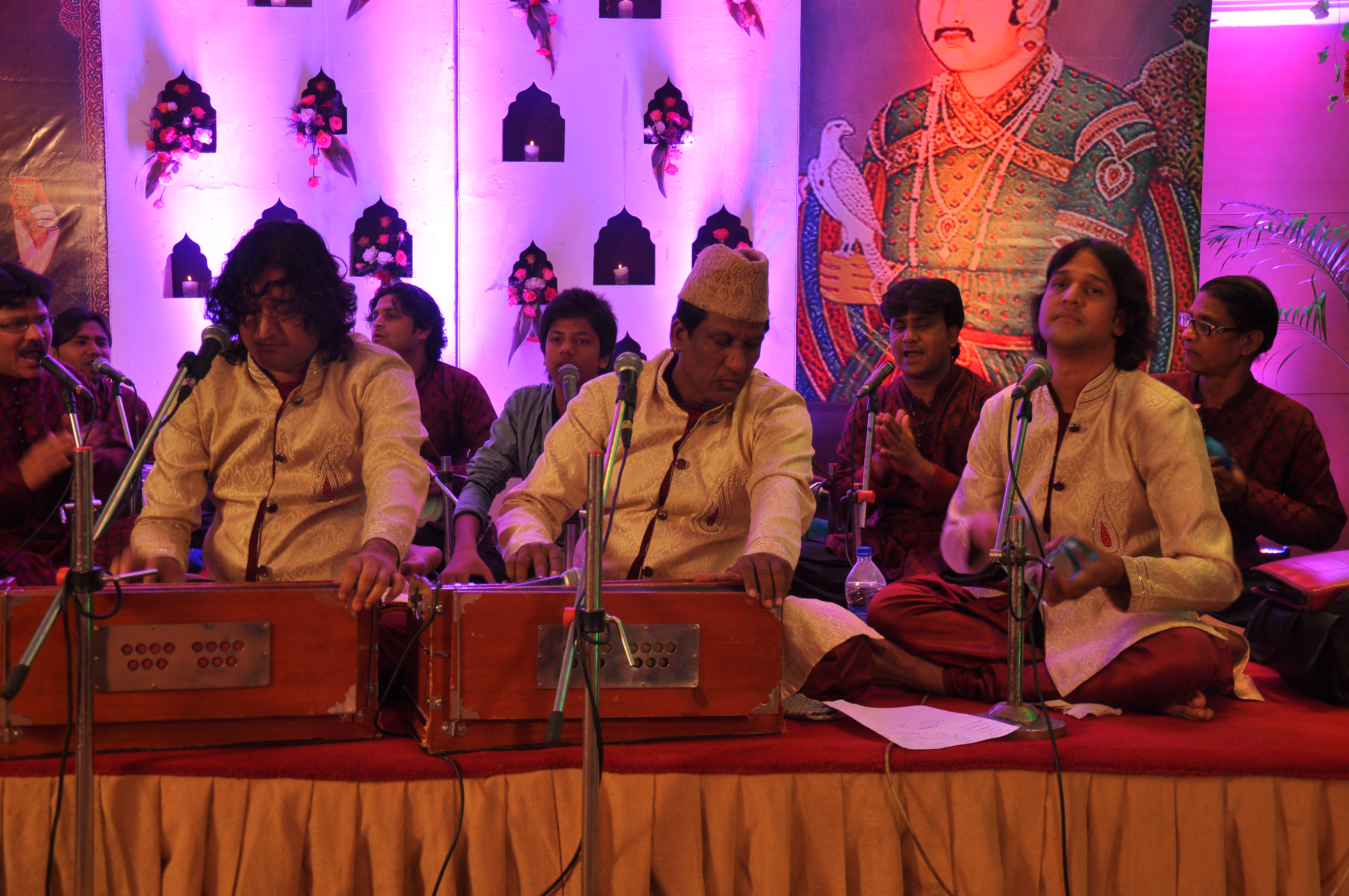 This image is of Nizami Bandhu while they are performing in a hotel